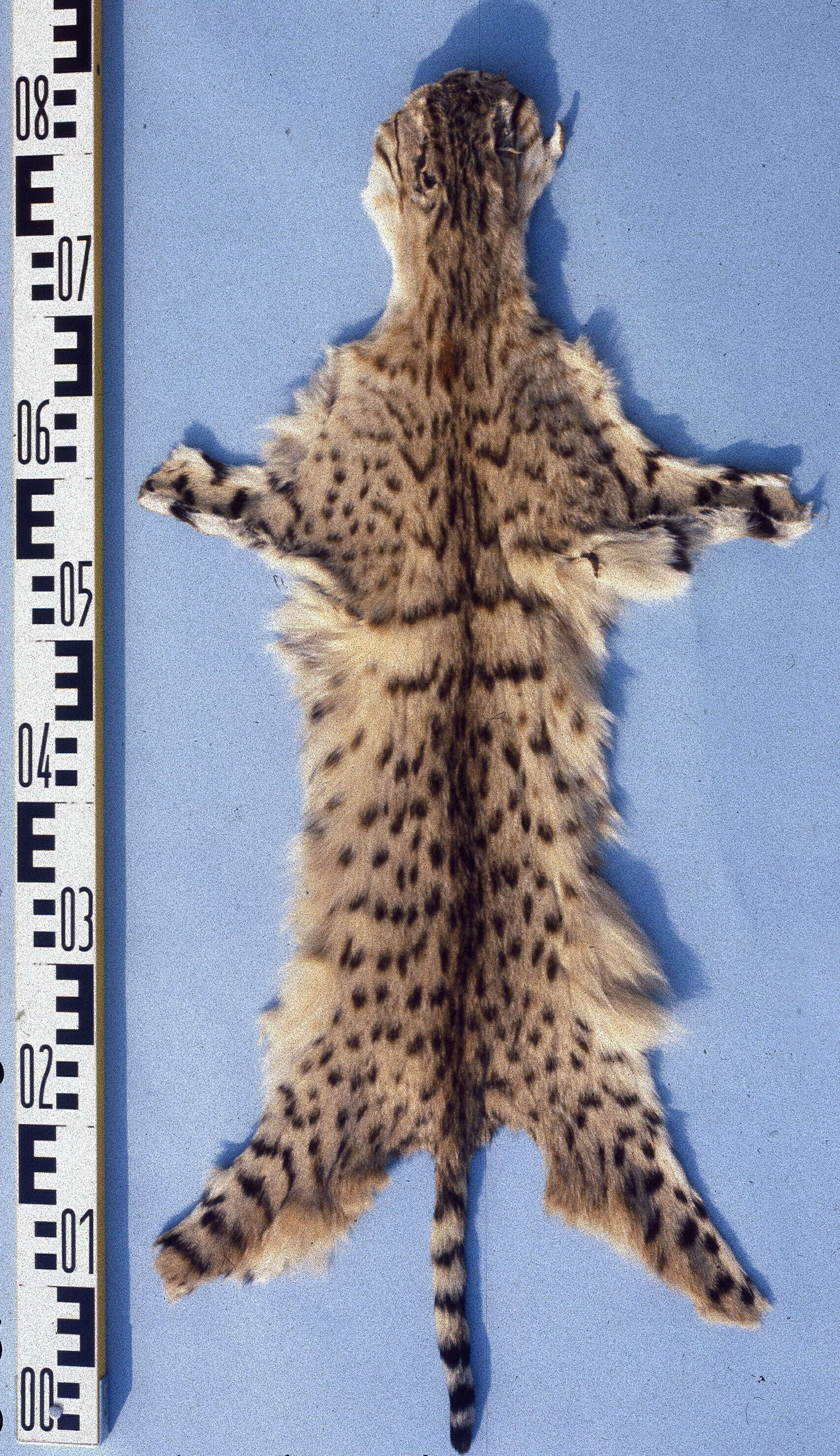 Indian steppe wildcat fur skin (Felis silvestris ornata). Fur skin collection, Bundes-Pelzfachschule, Frankfurt/Main, Germany